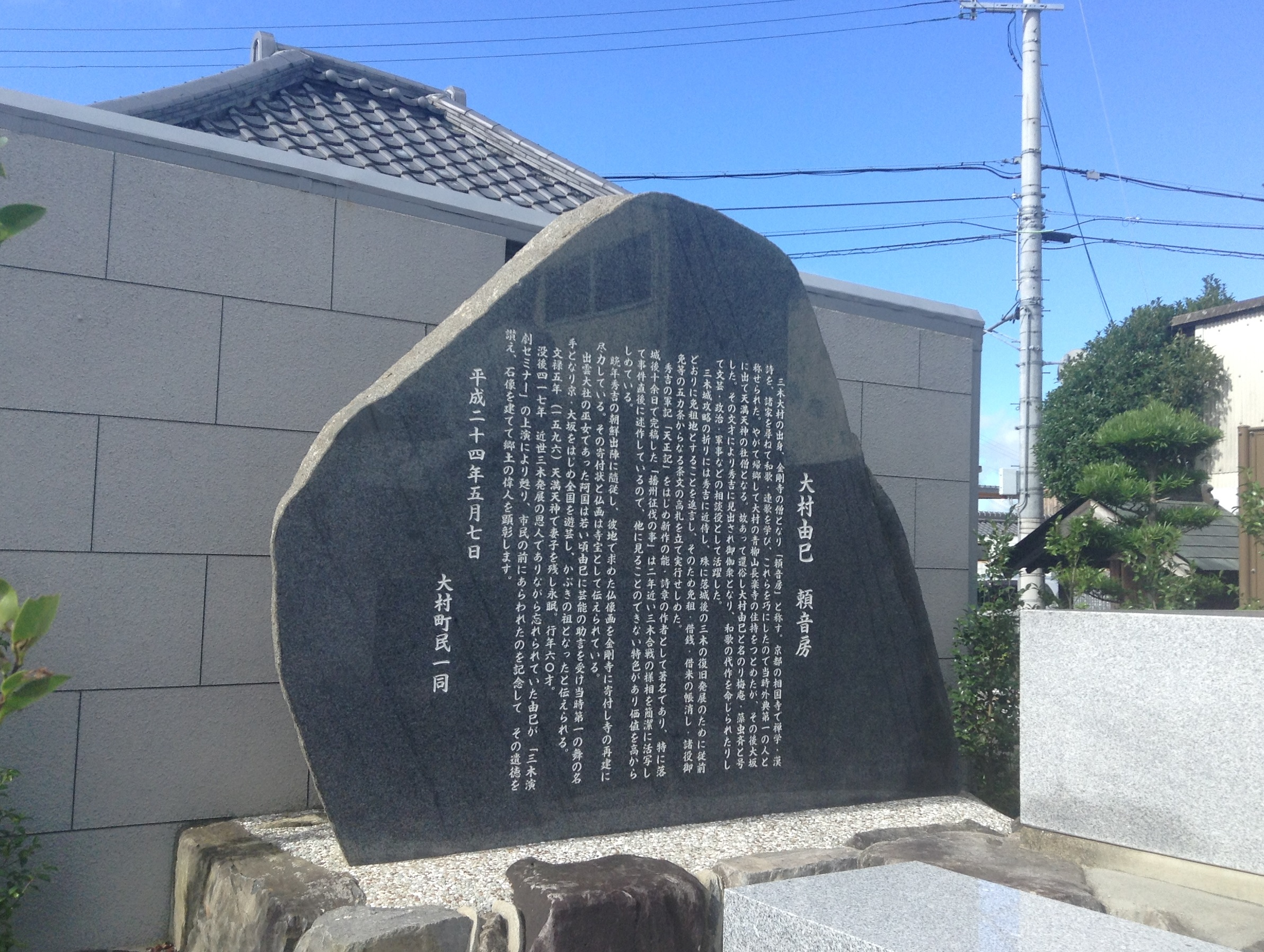 Monument of Omura Yuko in Omura, Miki-shi